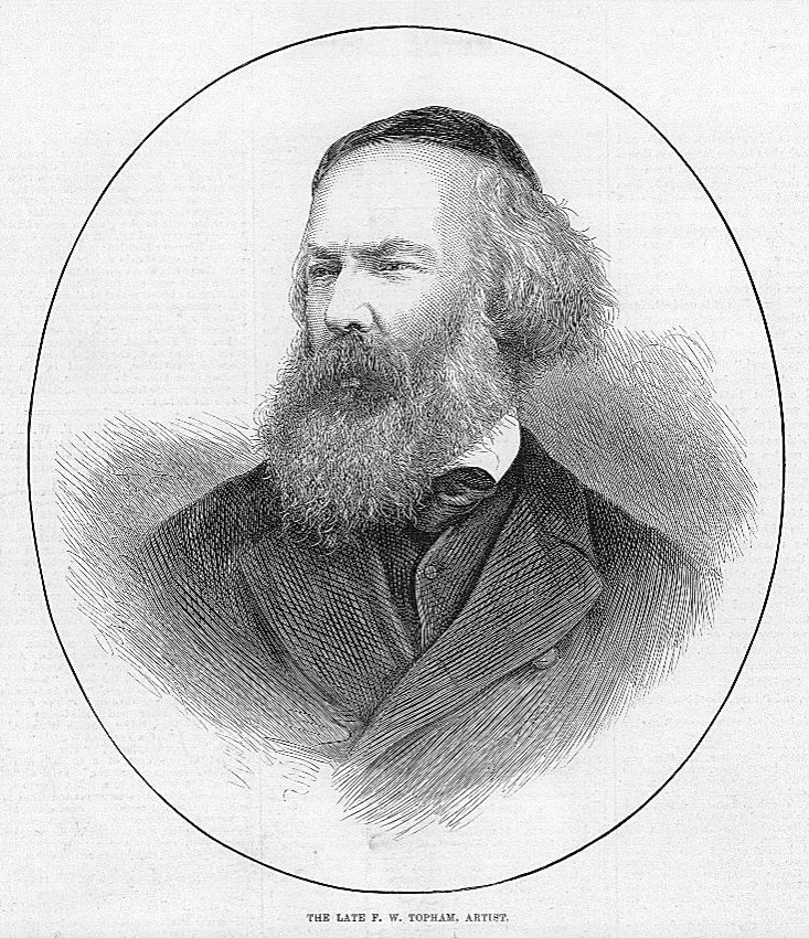 Portrait from the Illustrated London News of Francis William Topham (1808–1877), English watercolourist and engraver.